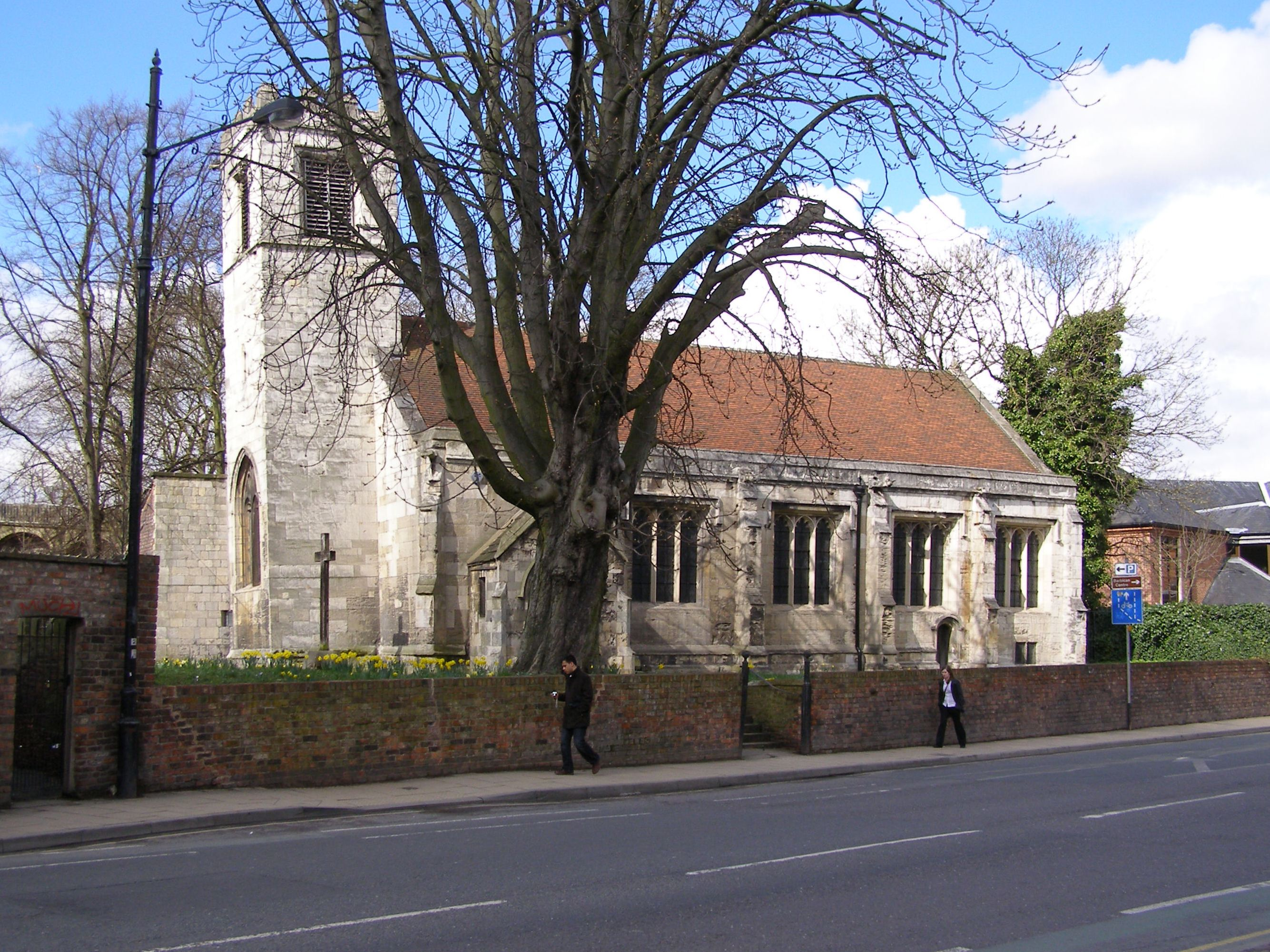 St Cuthbert's Church, near to York, Great Britain. St Cuthbert's Church, Peasholme Green is York's oldest church after the Minster and has Roman stones in its walls. It is the original York memorial to St Cuthbert, consecrated Bishop of Lindesfarne in York Minster on Easter Day 685AD.